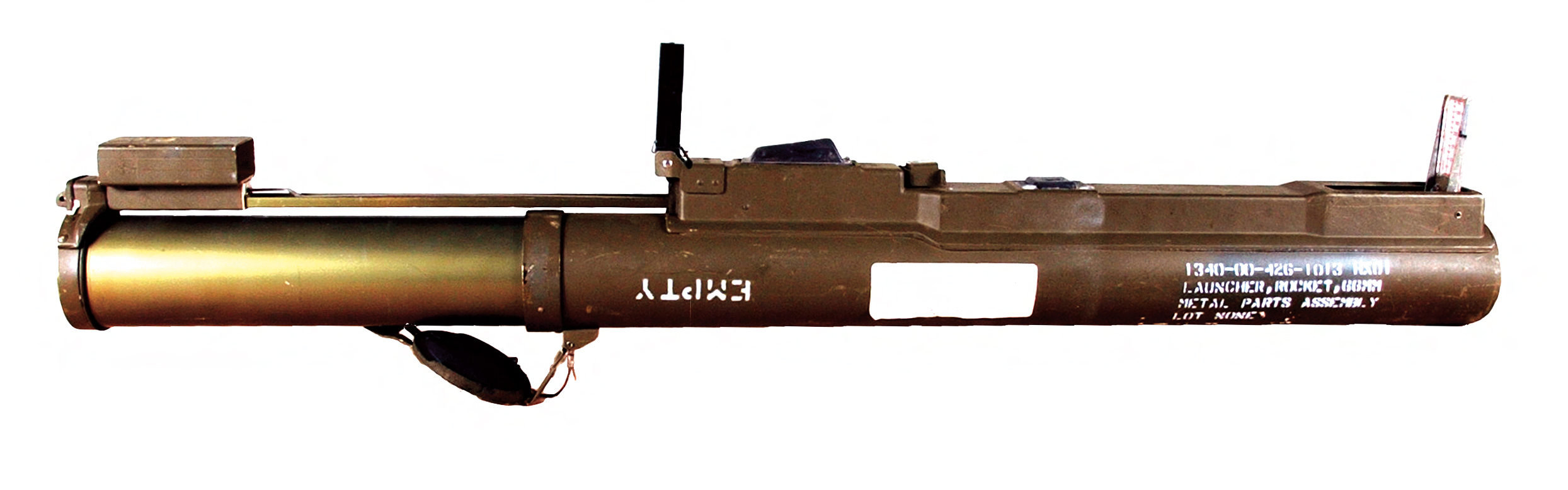 M72 Light Anti-tank Weapon Primary function: Anti-armor, gun emplacements, pillboxes, buildings and light vehicles. Length: Extended 34.67 in.; closed 24.8 in.; rocket 20 in. Weight: 5.5 lbs. Bore diameter: 66 mm. Maximum effective range: Stationary 200 meters, moving 165 meters.